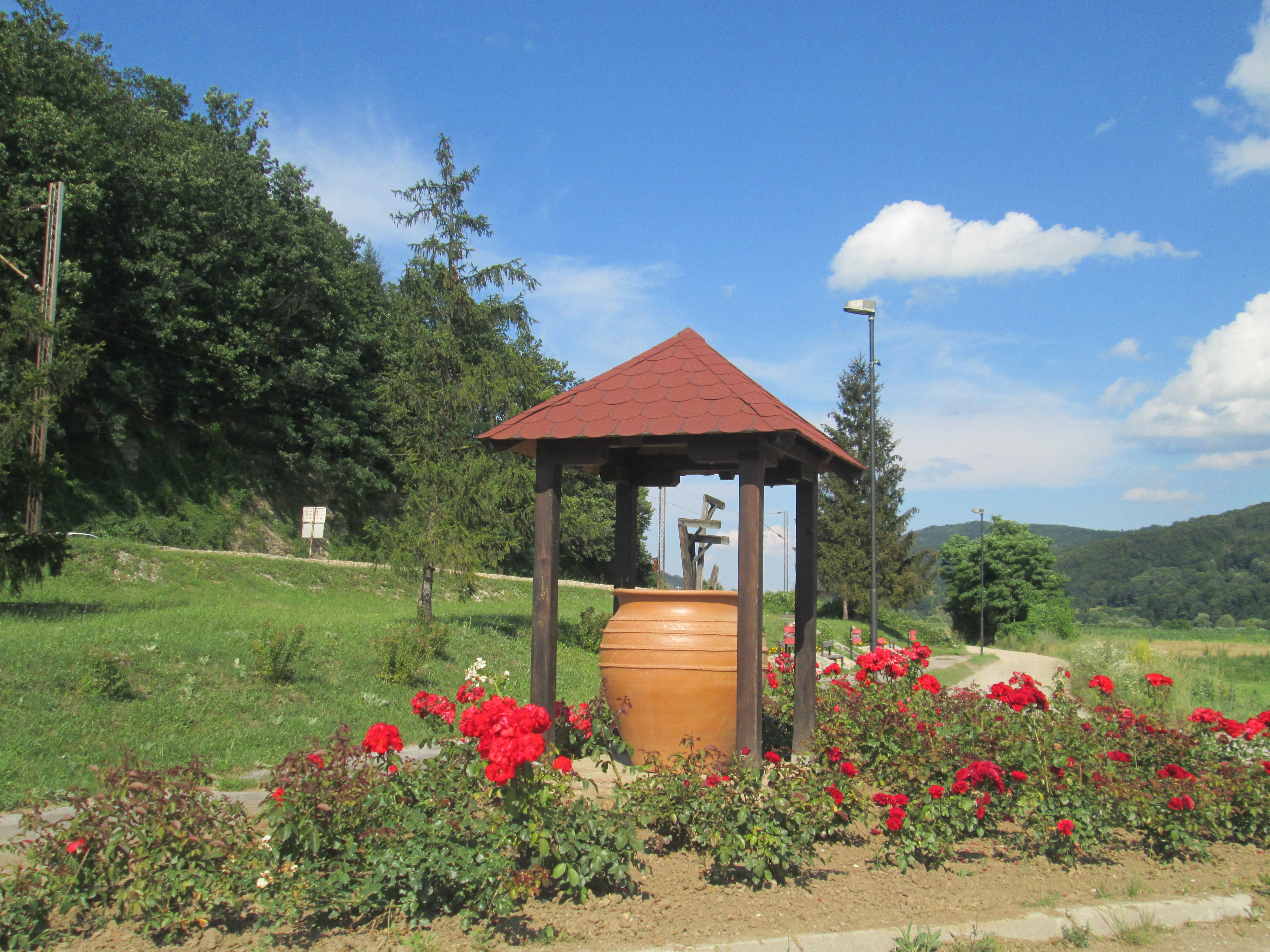 Pottery, Zlakusa Српски (ћирилица): Ћуп на уласку у село, Злакуса